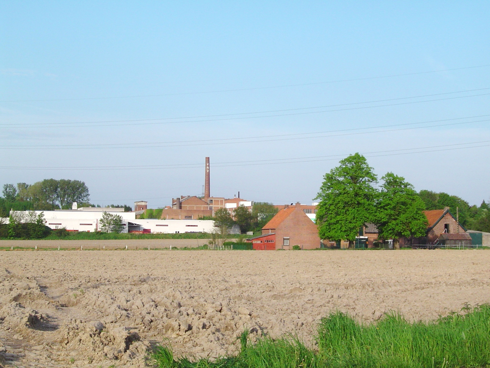 Factory BST, formerly Vanneste-Verwee in Deerlijk